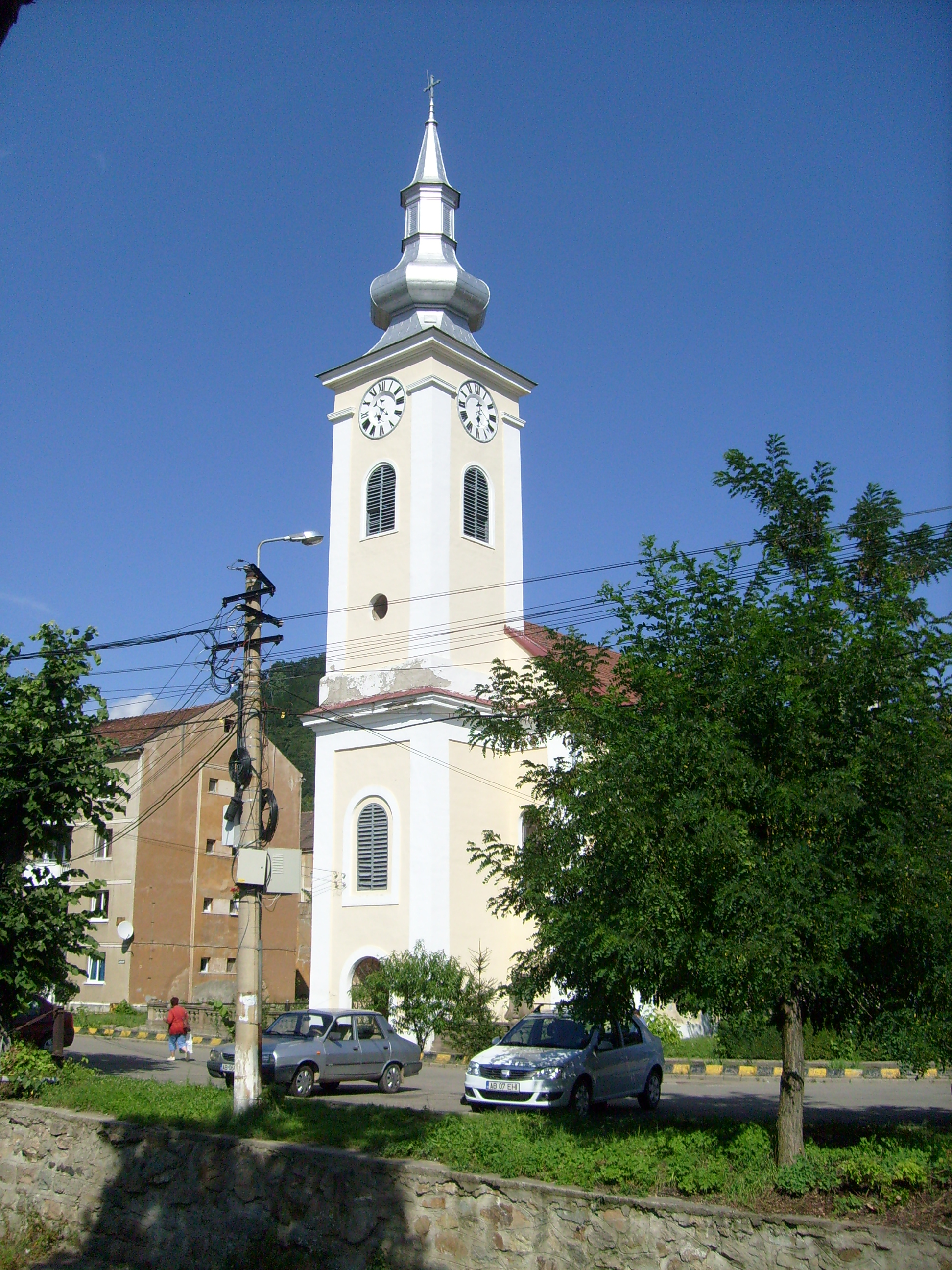 St. John Nepomuk church in Zlatna. Errected between 1752-1778.